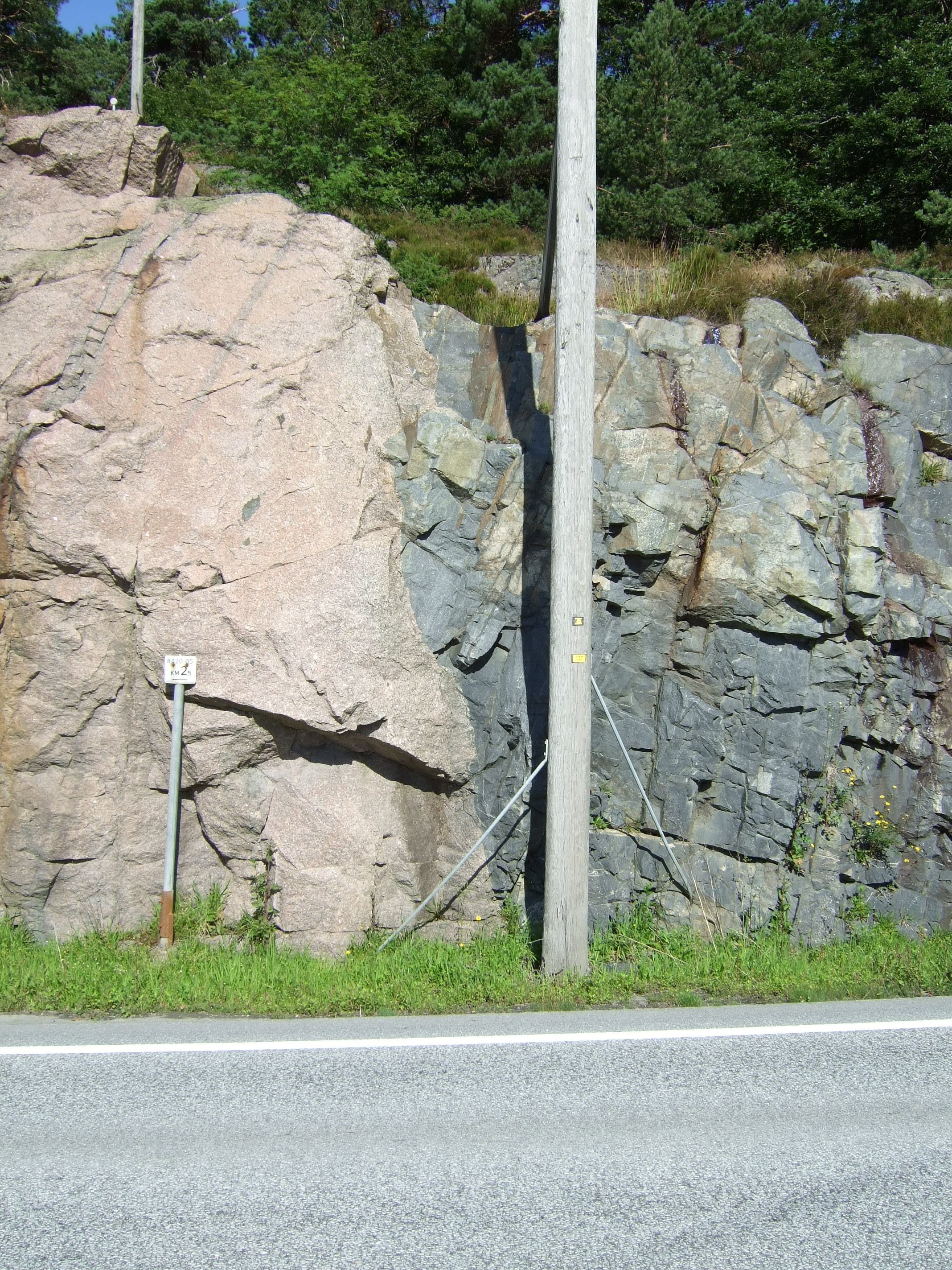 Northeastern contact of Fjære granite (Grimstad granite) with adjacent rock (Merdøy quartzite?) in road cut of Birketveit road, NE of Fevik, Aust-Agder county, Grimstad municipality, S-Norway.